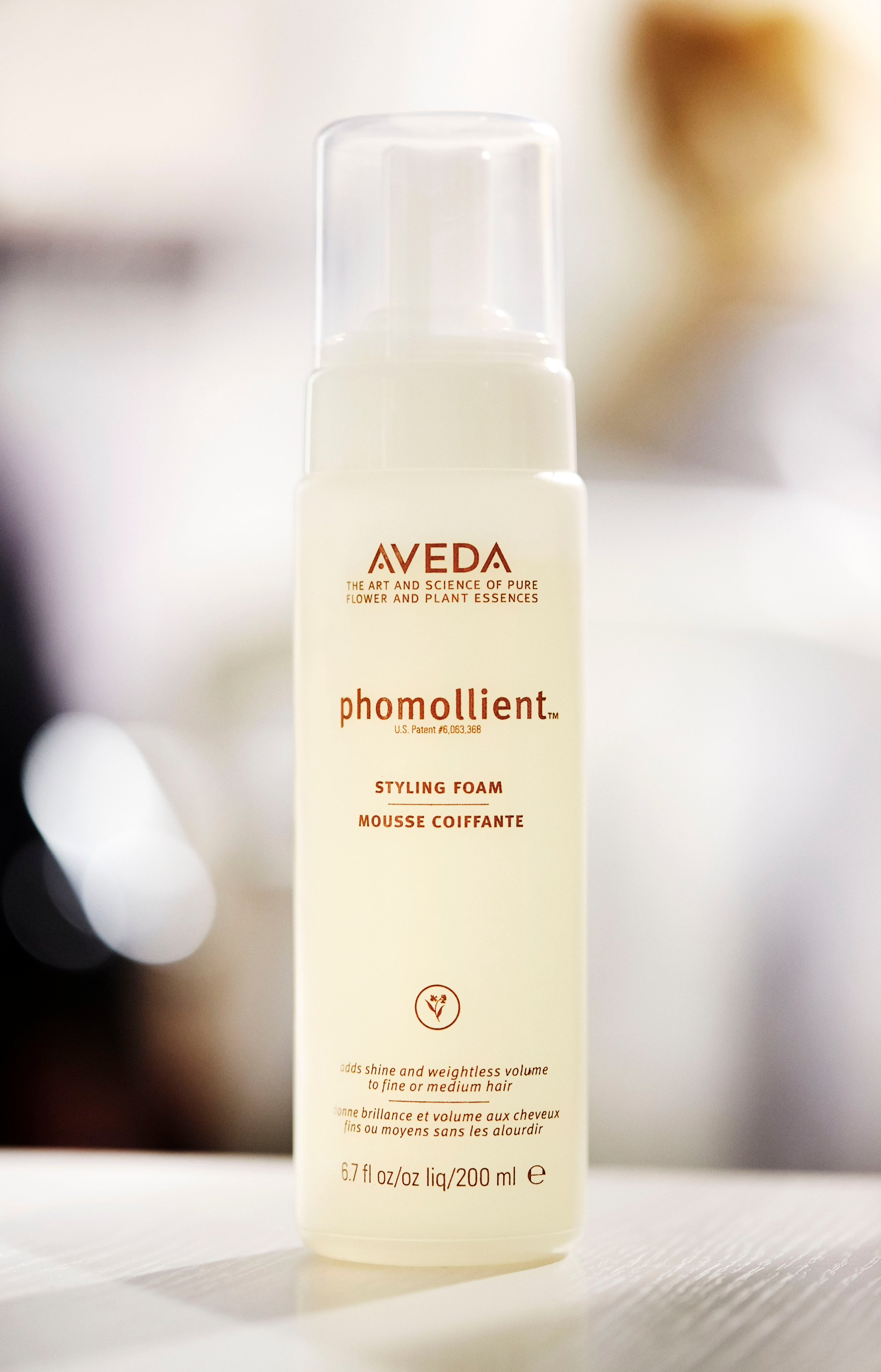 Haider Ackermann backstage at the Paris Fashion Week Fall/Winter 2015.